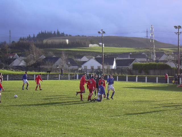 Brig o'Lea Stadium in Neilston, Scotland. Home of Neilston Juniors FC. Looking south